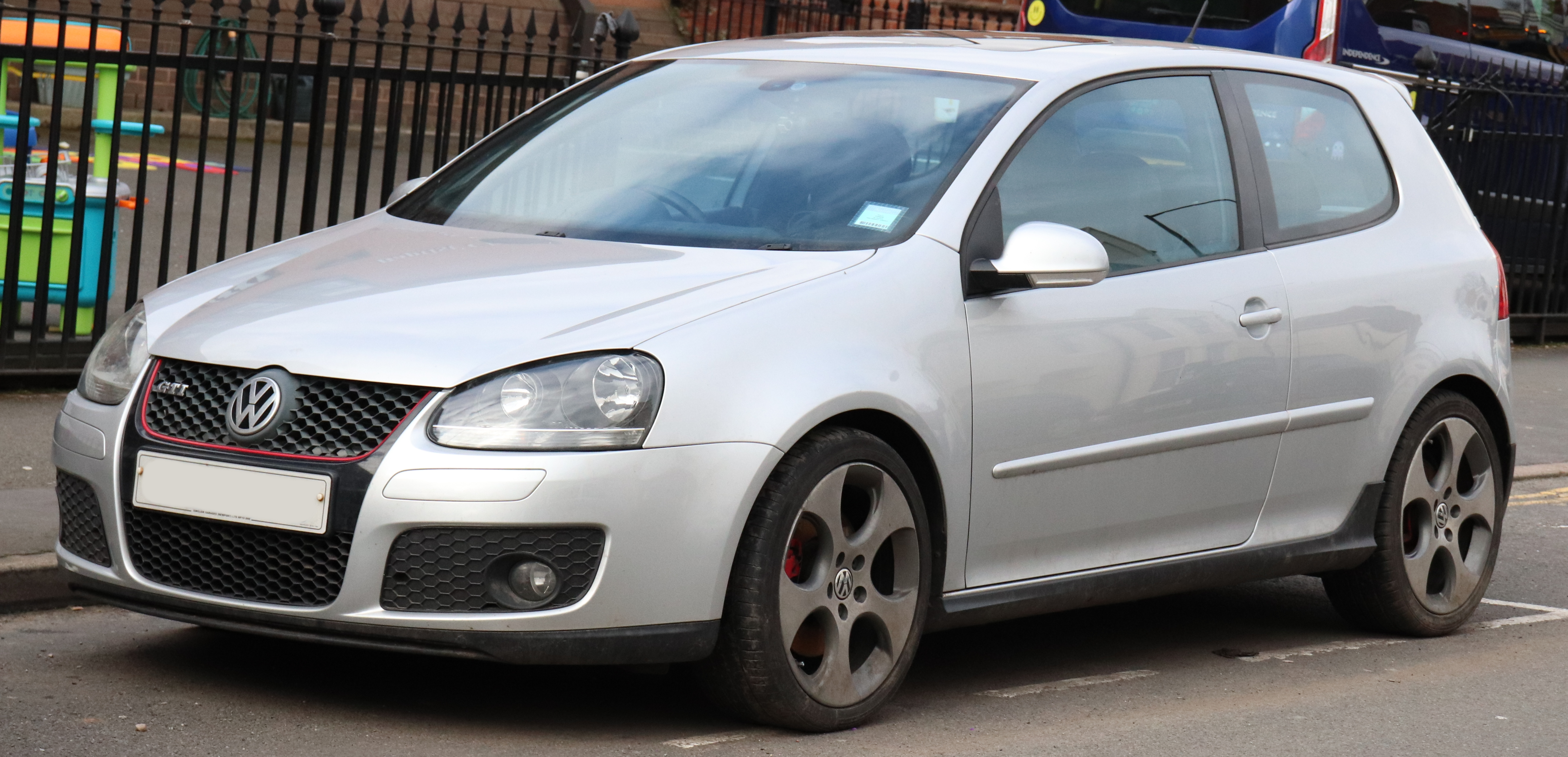 2005 Volkswagen Golf GTi 2.0 Front Taken in Leamington Spa